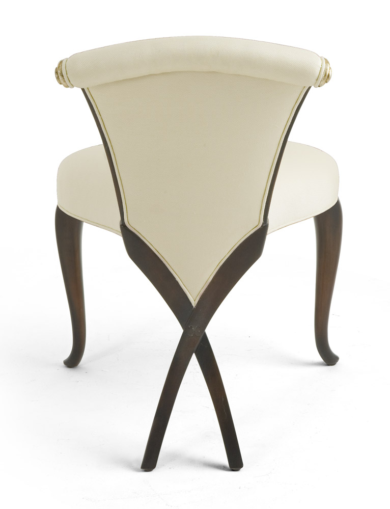 Christopher Guy Harrison (British, b. 1960): Boudoir chair with Chis-X legs, mahogany